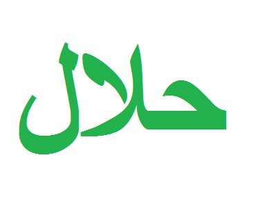 Halal word in Arabic language